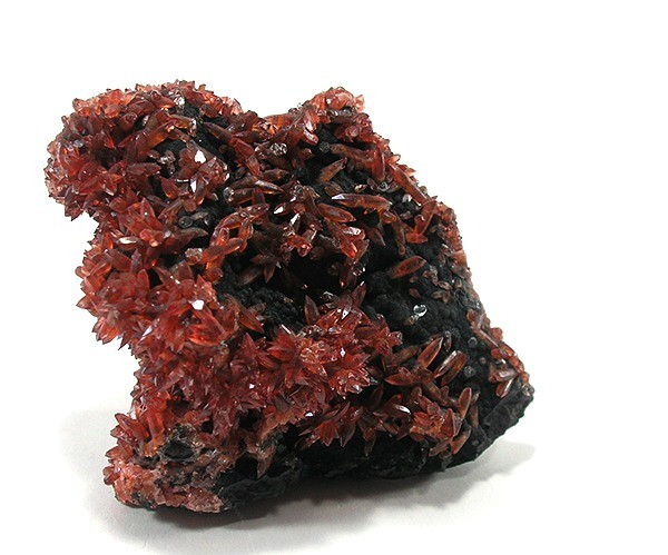 Rhodochrosite Locality: Moanda Mine, Moanda, Léboumbi-Leyou Department, Haut-Ogooué Province, Gabon (Locality at ) On a matrix of contrasting jet black manganese oxide, is a cascade of gemmy, light red, scalenohedral crystals of rhodochrosite, a few of which are doubly terminated. The largest crystals reach almost 1.0 cm across, which is HUGE in size for the locality. In fact, the piece is one of the richest and best specimens I have ever seen for sale from this location, which produced them in the 1960s. I got it from Gilbert Gauthier, the well-known dealer in Mouanda Mine minerals, in the 1990s and sold it to Stretch at that time. If htis were from NChwaning it would be at least this price, and not nearly as rare and desirable for the price range. Instead, it IS rare and desirable because you can get about the best that th mine produced, and in a visible display specimen without breaking the bank. In fact, crystals abound on the back side also. 7.7 x 5.9 x 3.7 cm